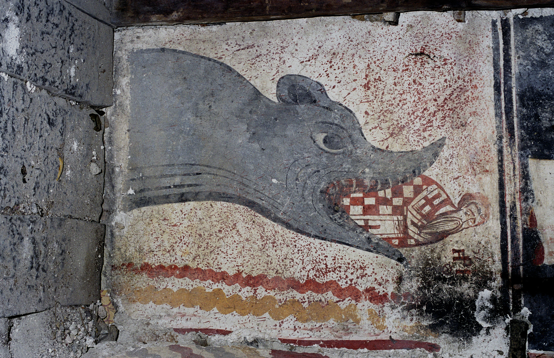 Vision of Peter of Alexandria; detail: Arius is devoured by a dragon